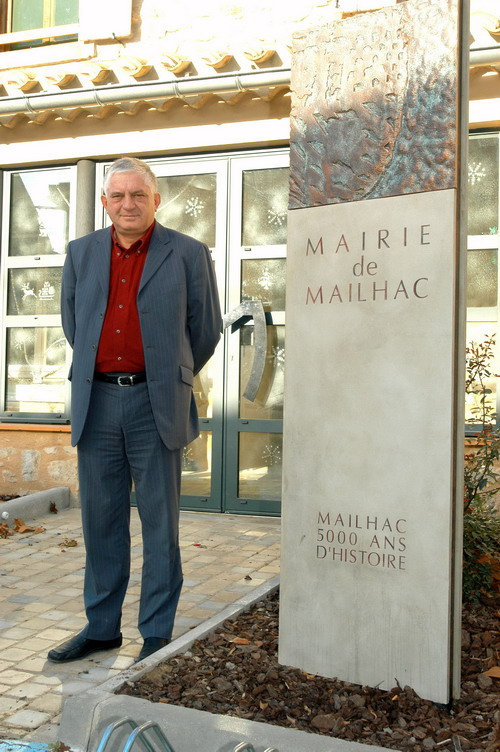 Gérard Schivardi, french politician and candidate for the 2007 presidential election (photo officielle du comité de campagne du candidat)